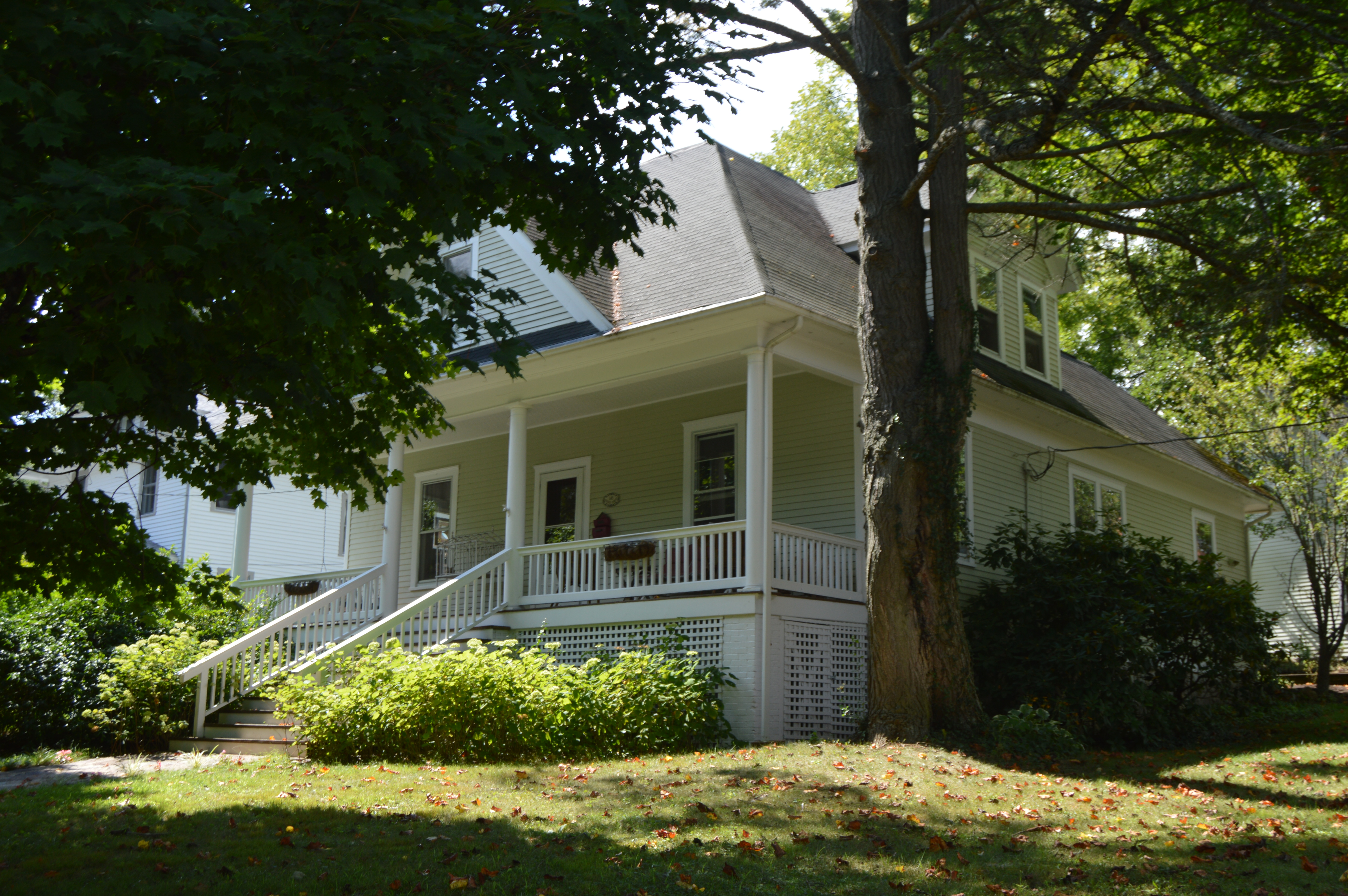 Houses on the northern side of Church Street just south of the black cemetery in Lewisburg, West Virginia, United States. This block is part of the South Church Street Historic District, a historic district that is listed on the National Register of Historic Places.